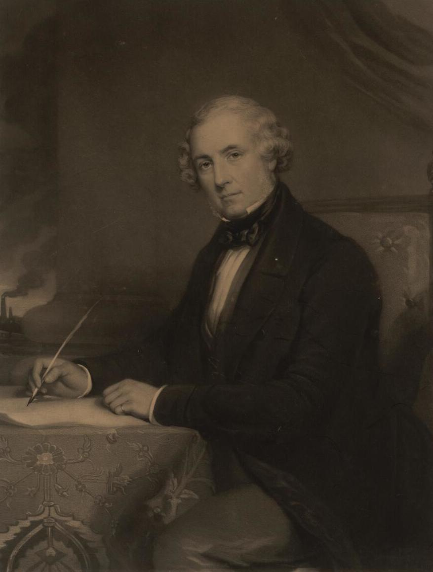 A portrait from the Welsh Portrait Collection at the National Library of Wales. Depicted person: John Josiah Guest – Welsh politician